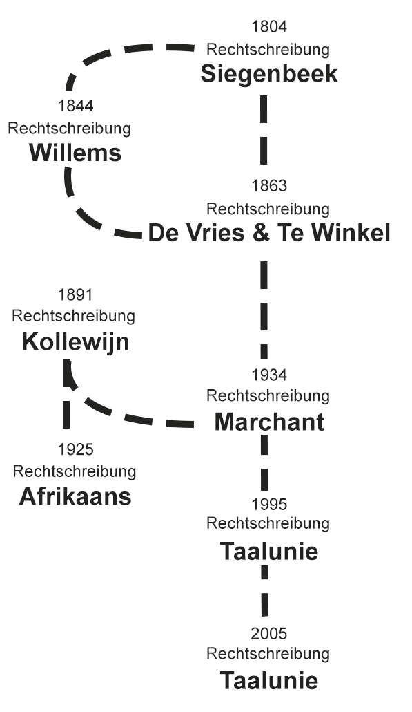 Flow diagram of different historical spelling systems of the Dutch language (in German)